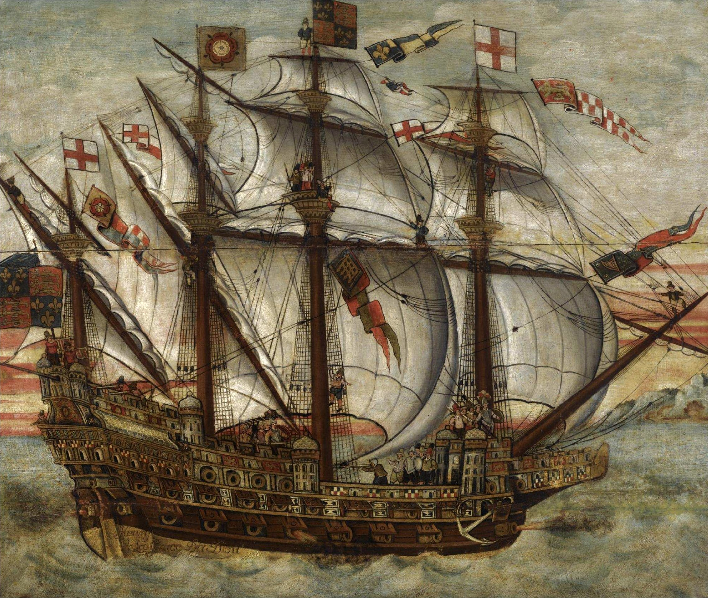 The Henry Grace à Dieu (The Great Harry)